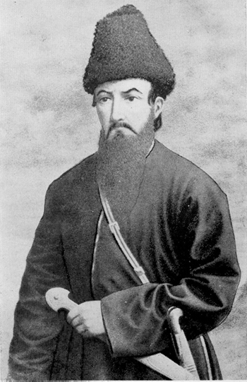 Alexander, Prince of Georgia (1770–1844)